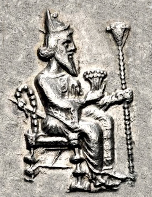 Artaxerxes III Pharao